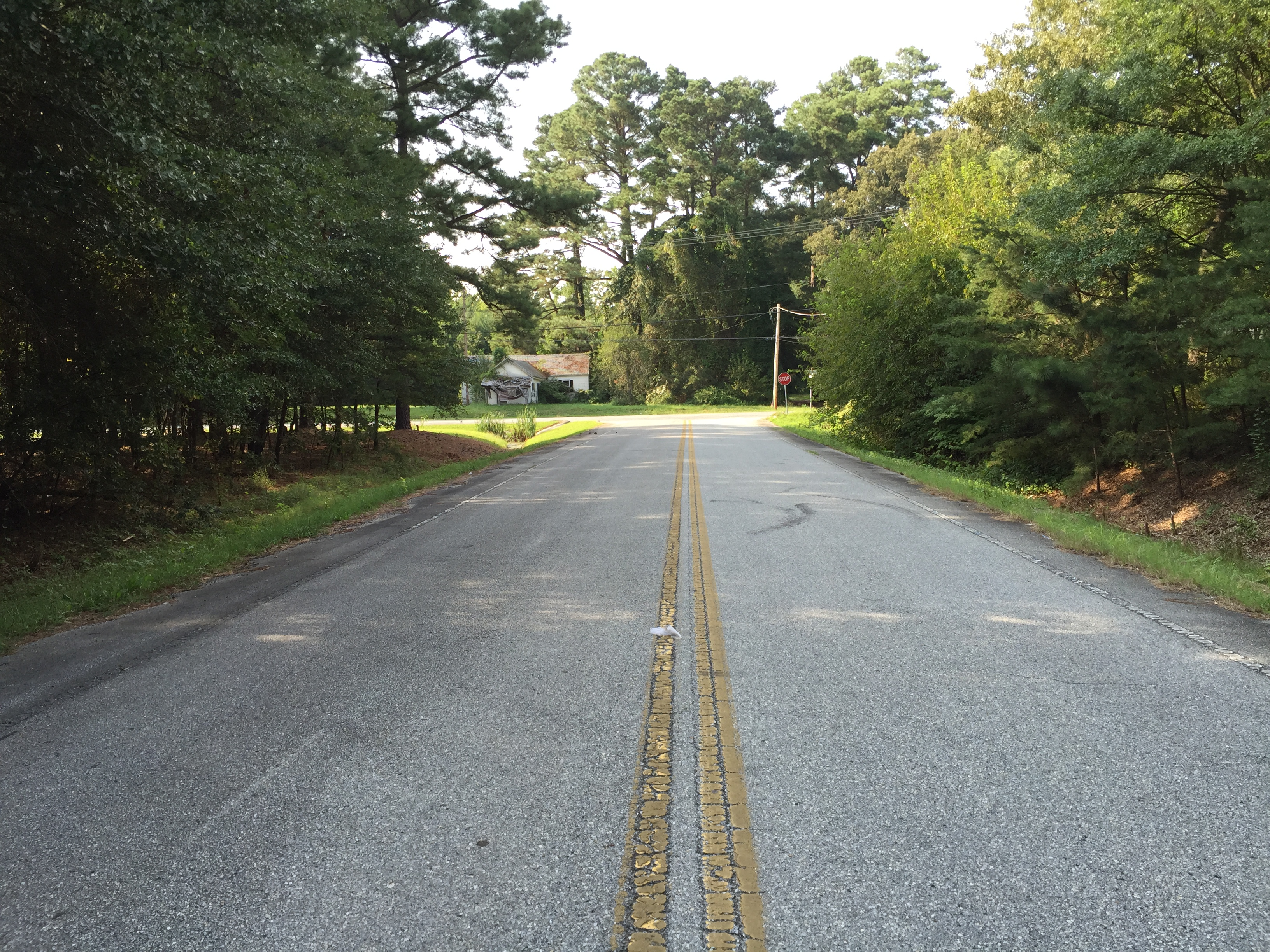 View north along Maryland State Route 813 (Twiford Road) at Maryland State Route 313 (Sharptown Road) just southwest of Sharptown in Wicomico County, Maryland